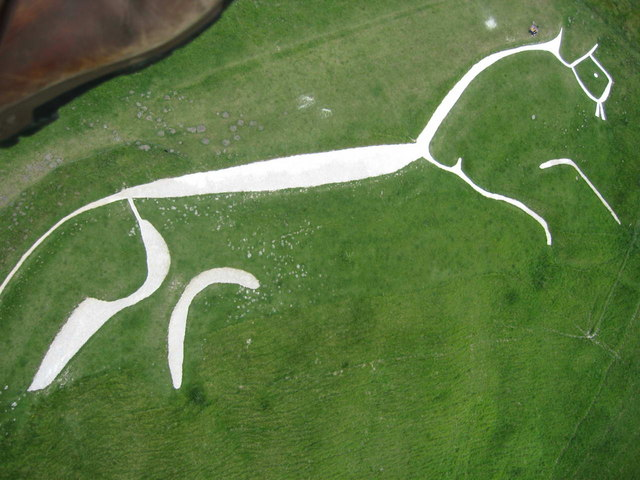 Aerial view from Paramotor of Uffington White Horse